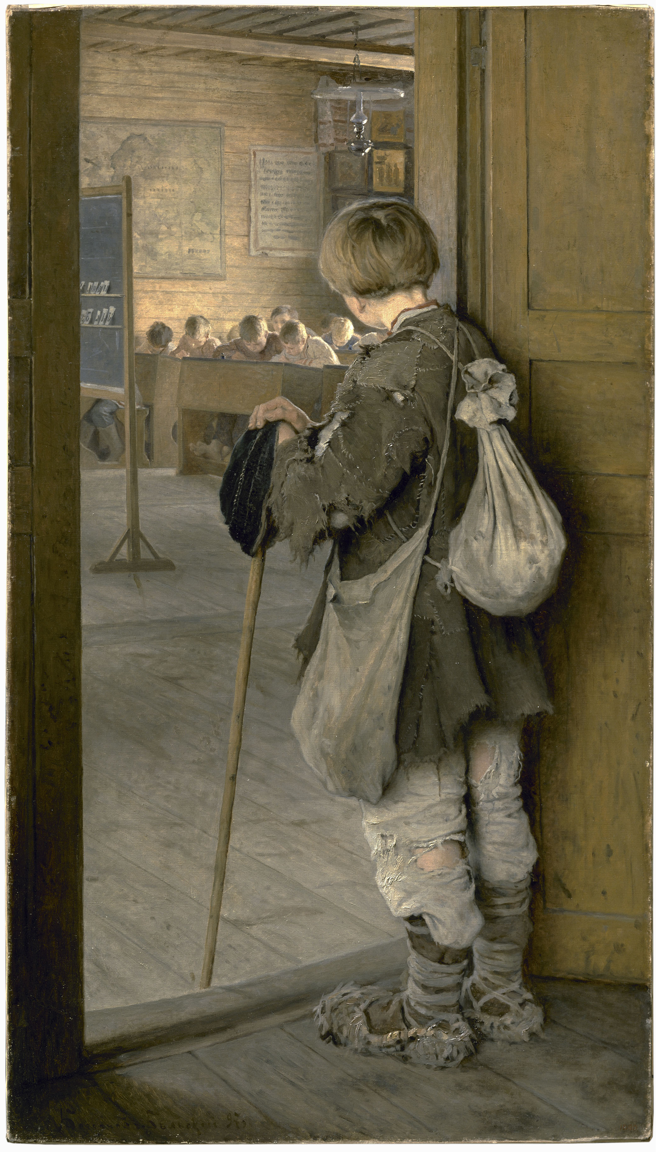 At the Door of the School. Oil on canvas. The State Russian Museum, St. Petersburg